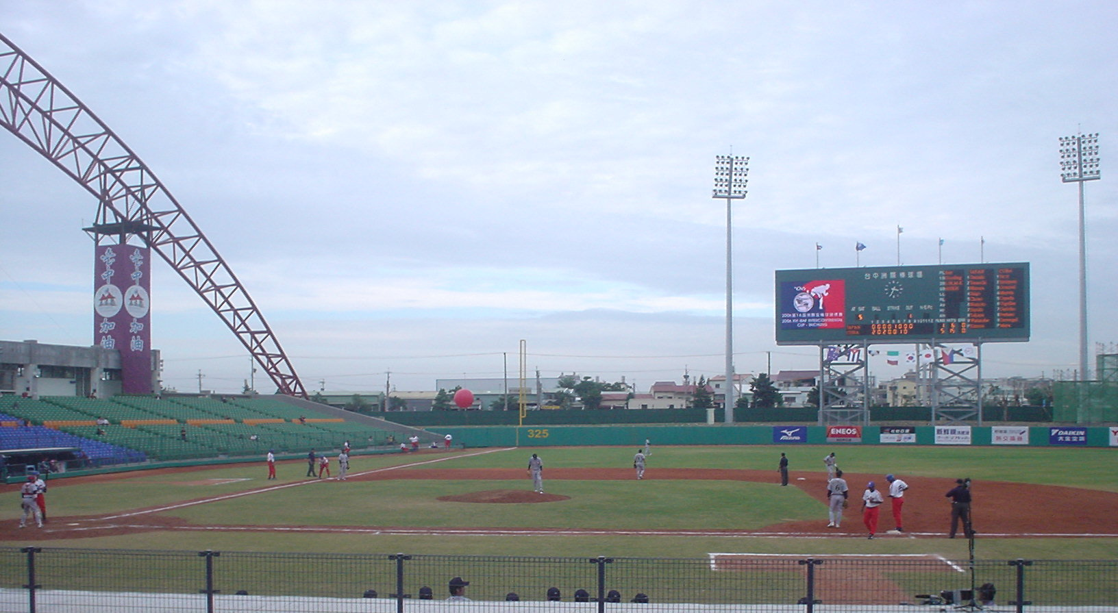 A shot from the Cuba-Japan game at the 2006 Intercontinental Cup in Taichung, Taiwan on November 14, 2006 Photo taken on November 14, 2006.